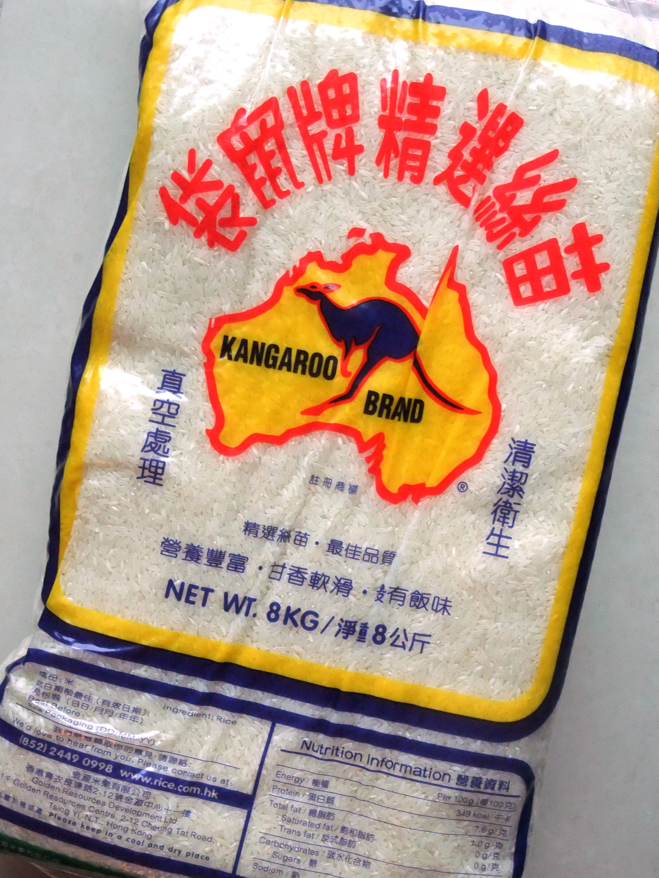 Kangaroo Brand rice (Hong Kong)